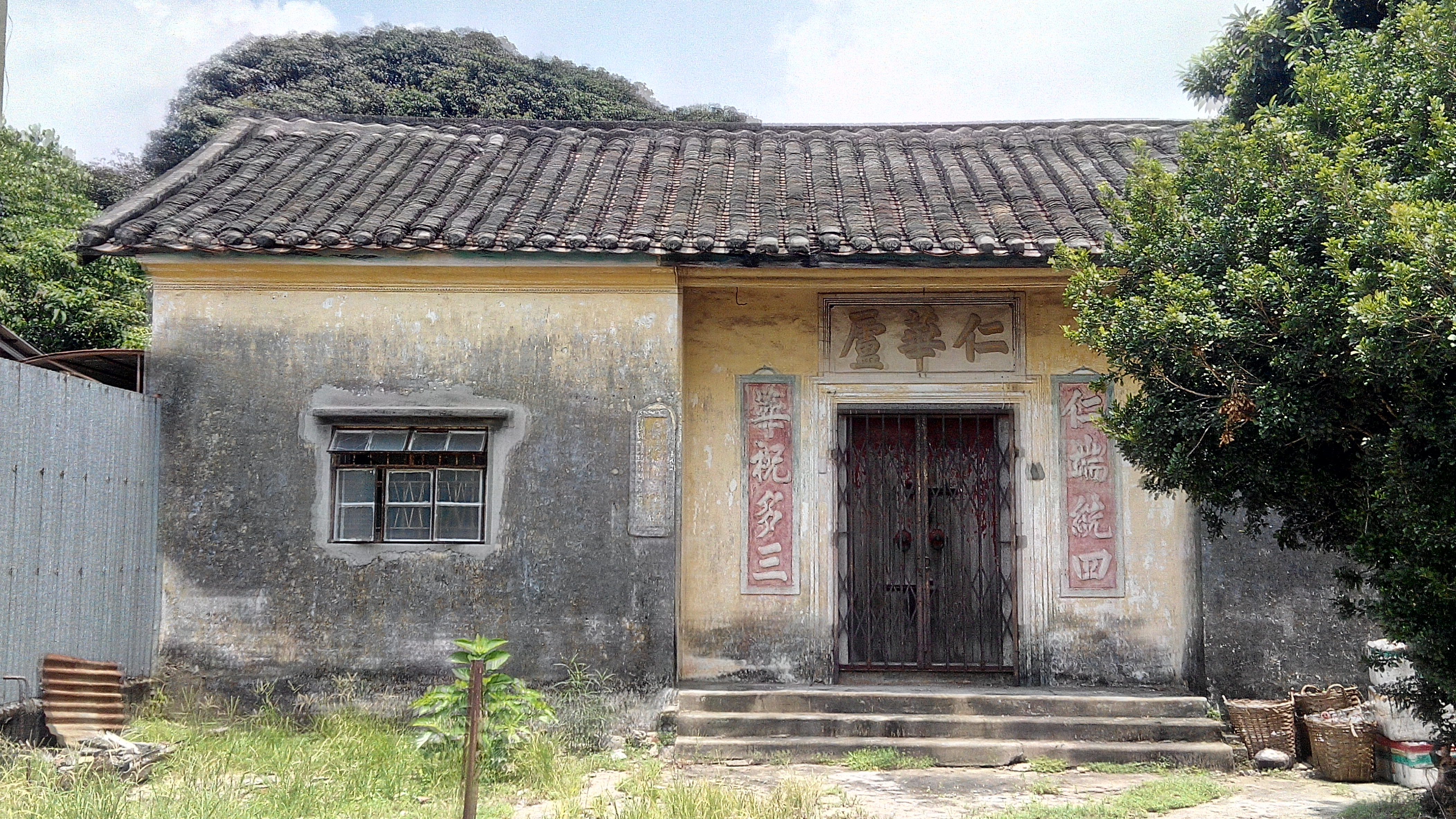 Kwu Tung, Yan Wah Lo